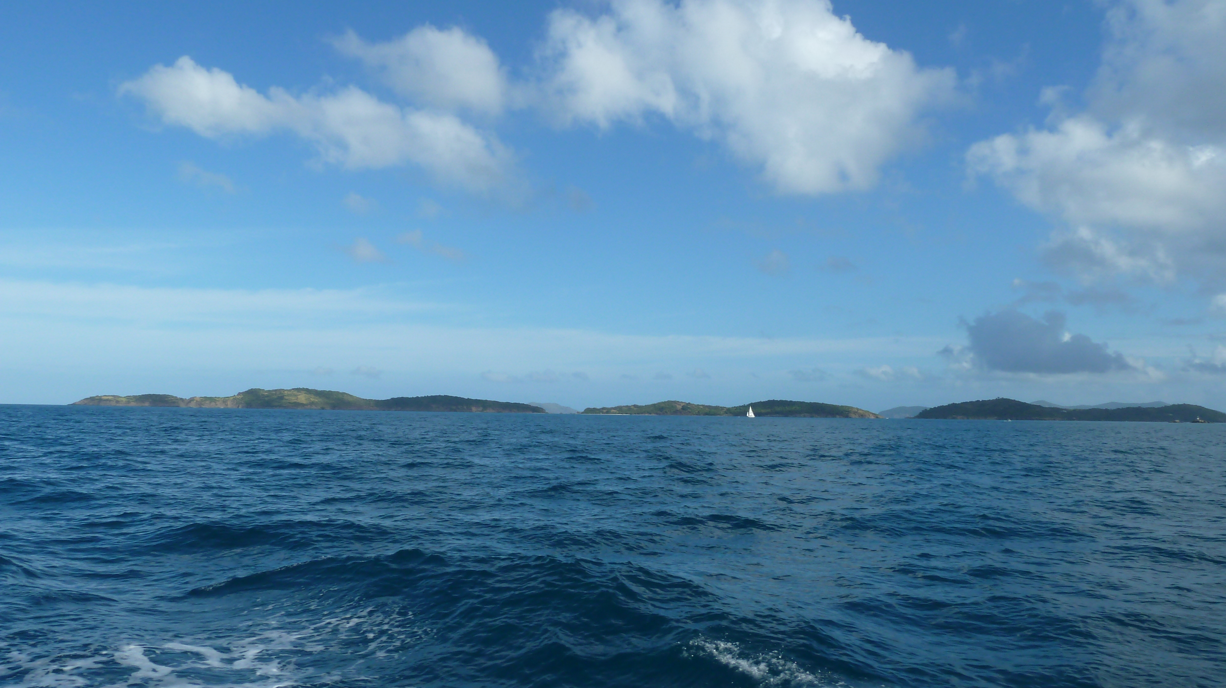 Grass Cay, Mingo Cay, and Lovango Cay, USVI, Dec 2010.